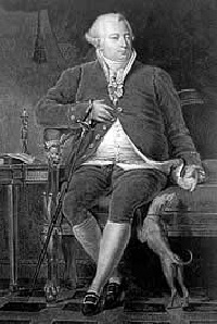 Louis Engelbert, 6th Duke of Arenberg (1750-1820)